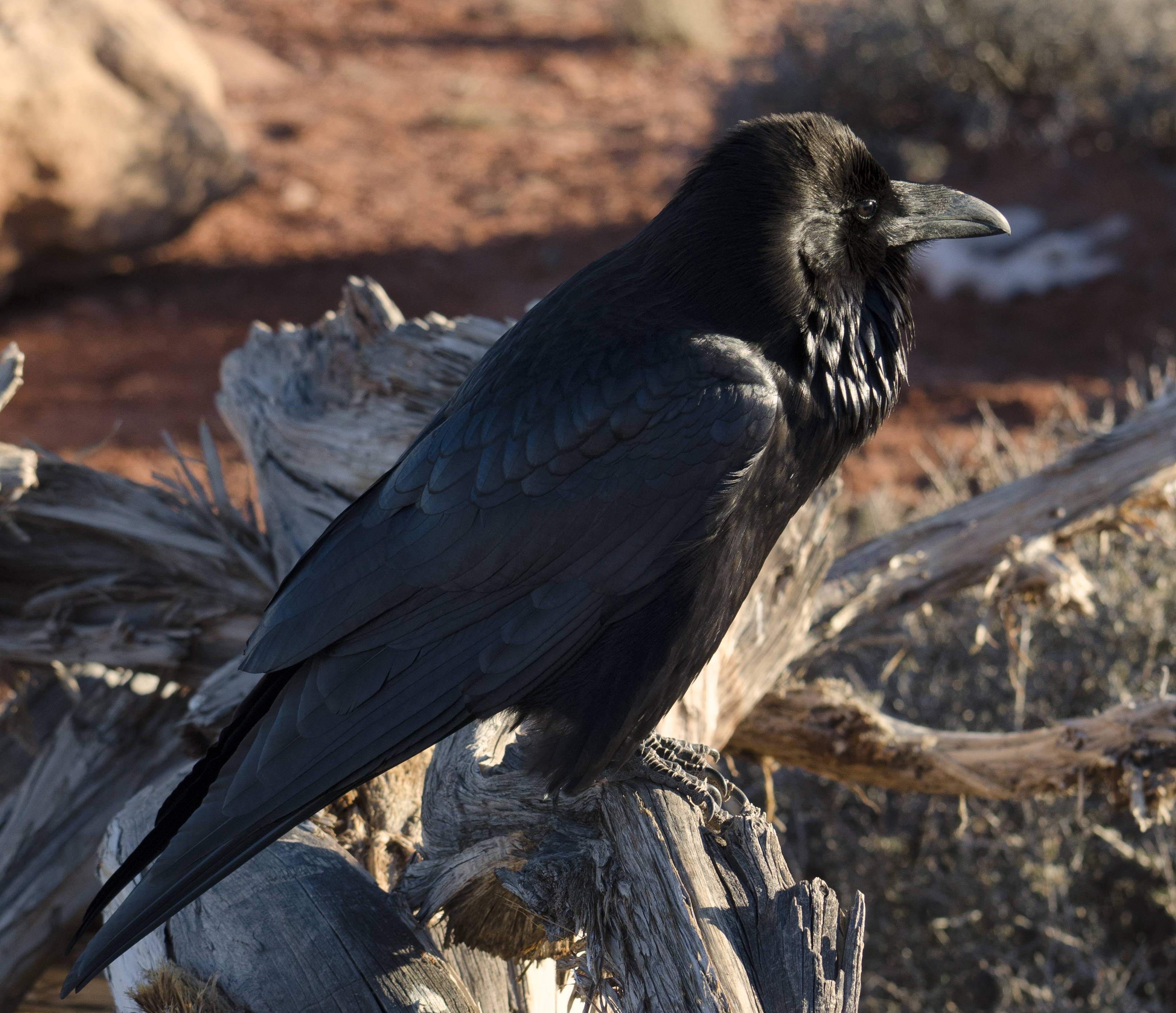 A Northern Raven at Canyonlands National Park, Utah, USA.